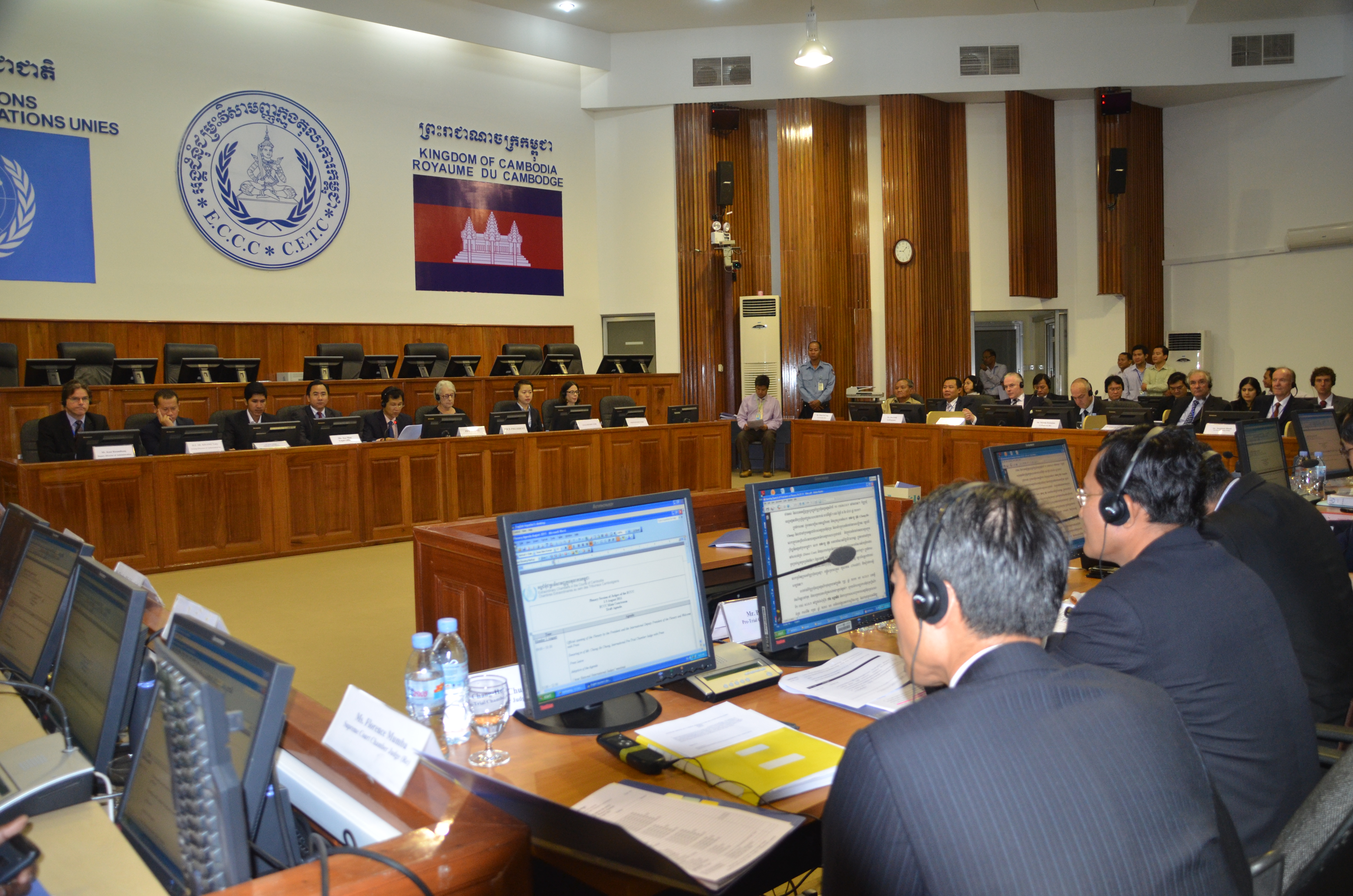 The 10th session of the ECCC Plenary commenced on 1 August 2011.